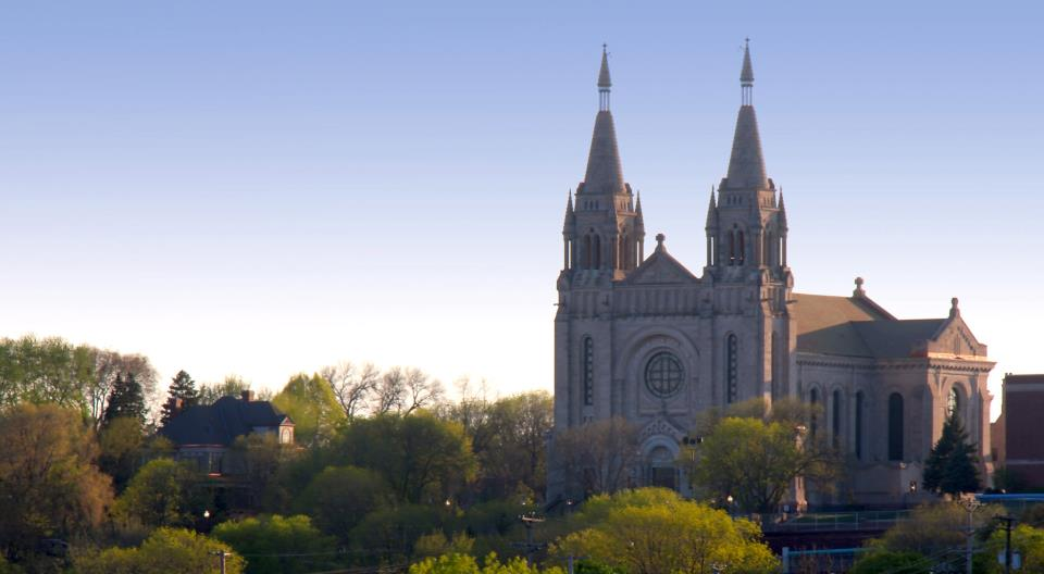 St. Joseph Cathedral located in Sioux Falls, South Dakota, USA.